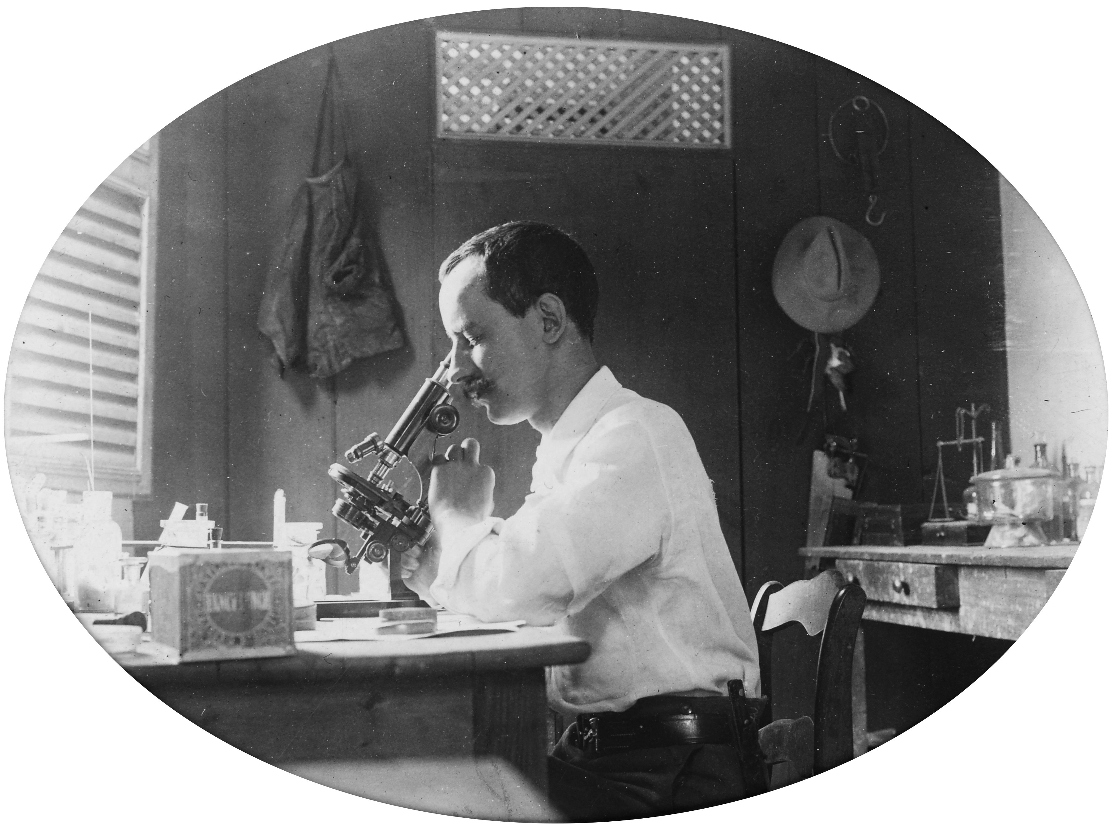 Photograph showing JE Dutton looking through a microscope during an expedition to the Gambia organised by Liverpool School of Tropical Medicine, 1902-3. The object of the expedition was to report on the sanitation of the places visited, the tropical diseases encountered in men and animals, and especially, to investigate human trypanosomiasis. Dutton had described the first known case in 1902 when he reported the infection of a European with the parasite which he named Trypanosoma gambiense.